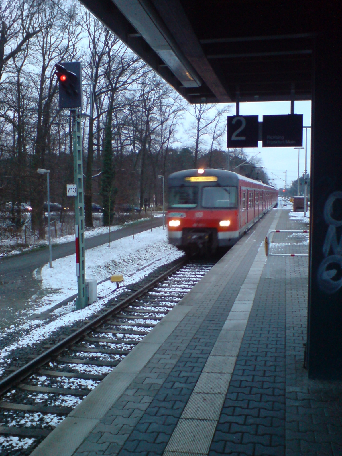 An 'S-Bahn' train arriving in Erzhausen, Germany, seen looking south.